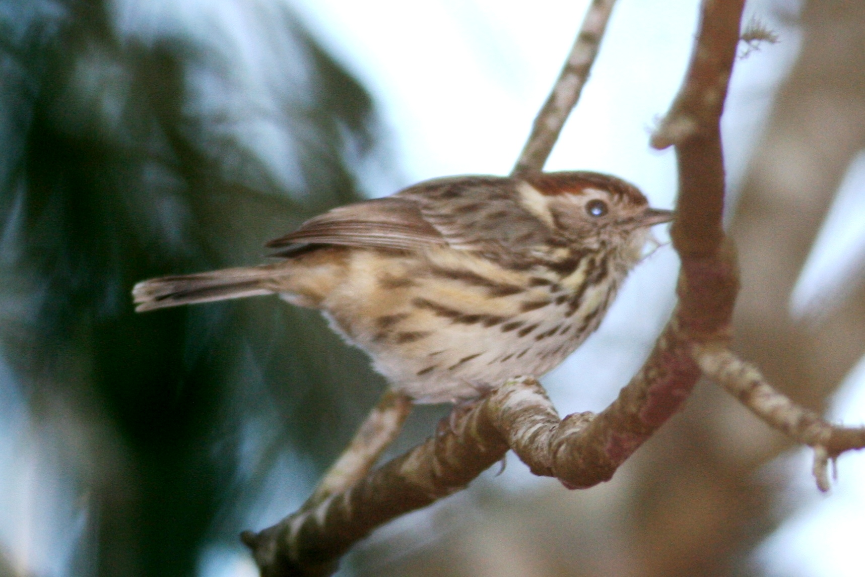 Speckled Warbler (Chthonicola sagittata) near Toowoomba, Queensland, Australia. Photographed on 5 May 2009